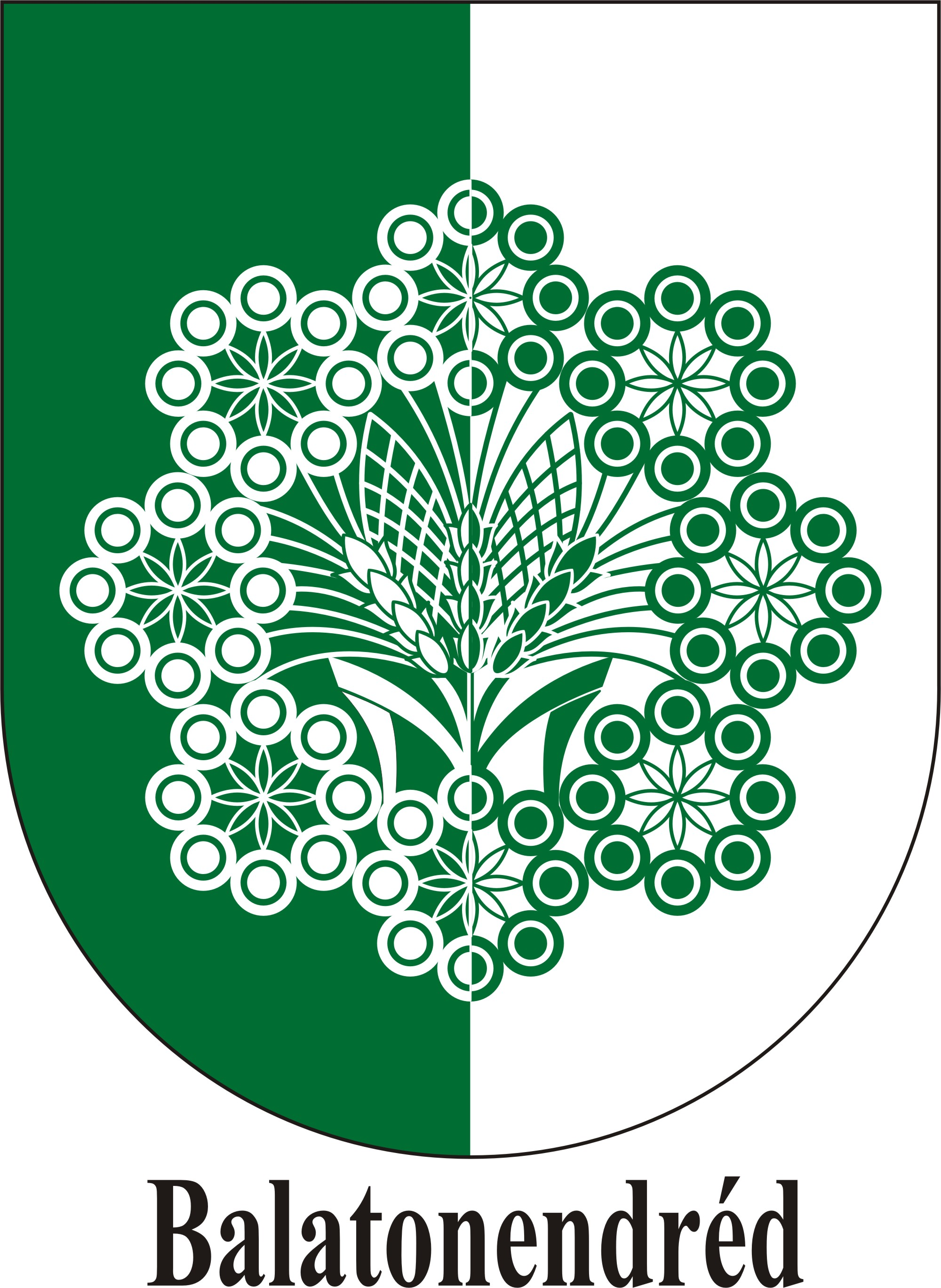 Coat of arms of Balatonendréd, Hungary